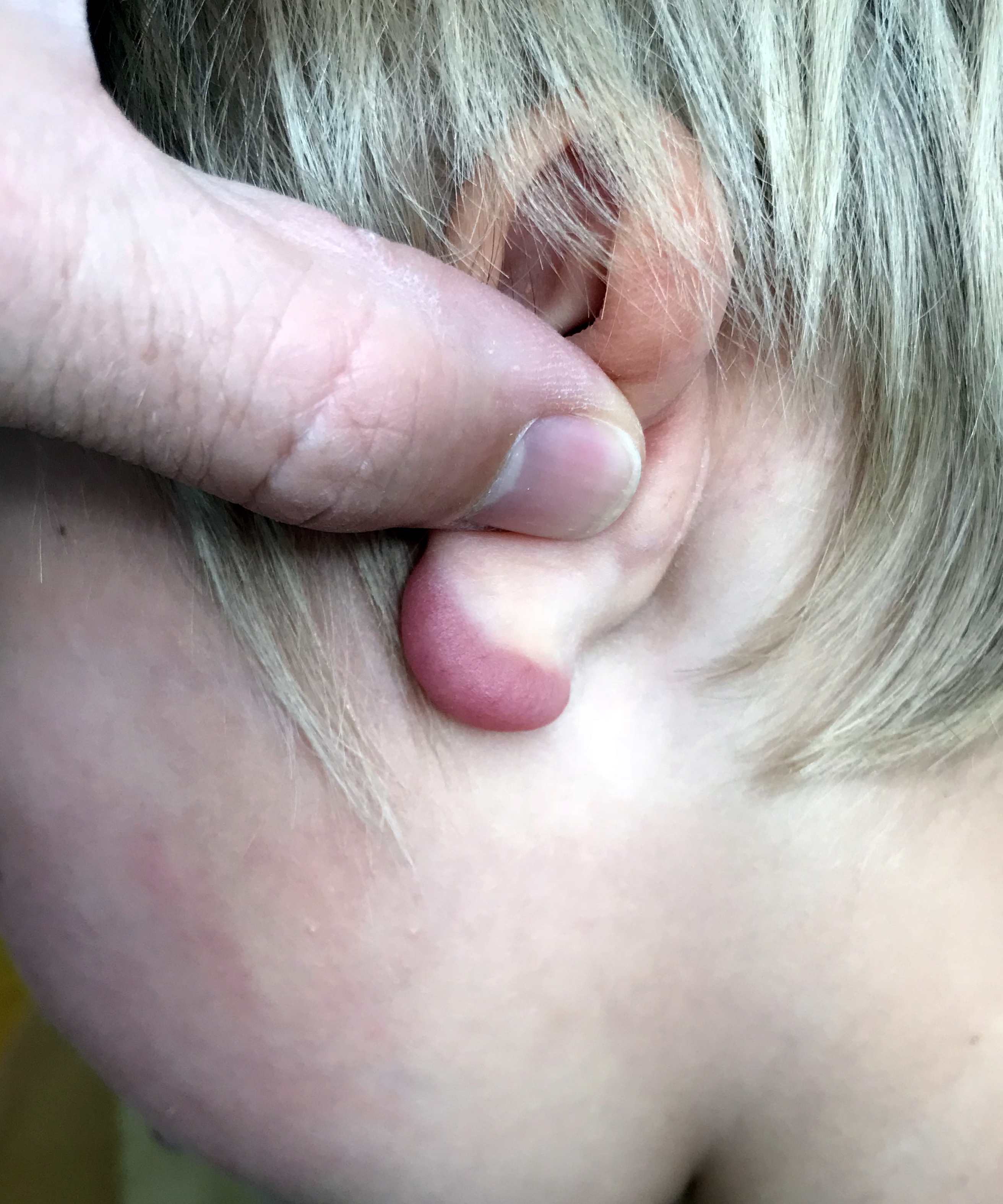 Borrelial lymphocytoma on 4 years old child's earlobe.